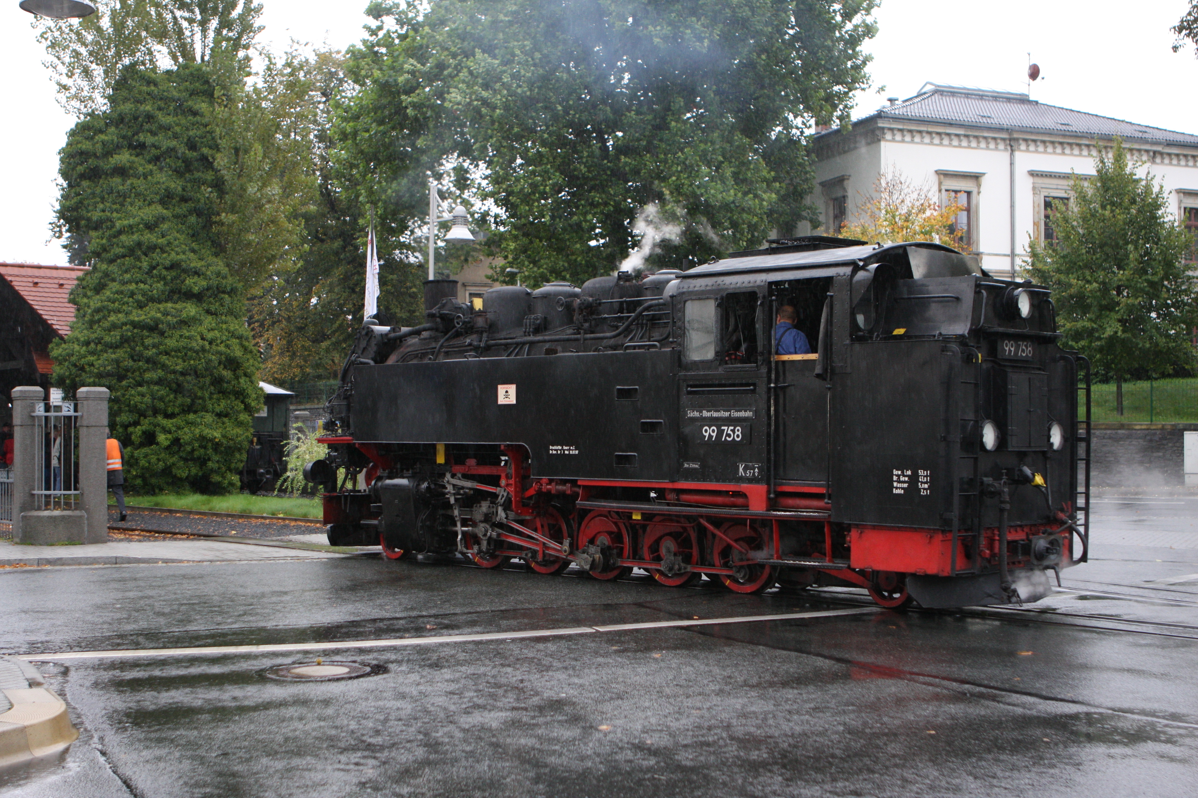 steam engine - Zittau–Oybin–Jonsdorf railway